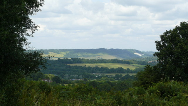 North Downs, Surrey A glimpse of the North Downs through a "window" in the foliage.